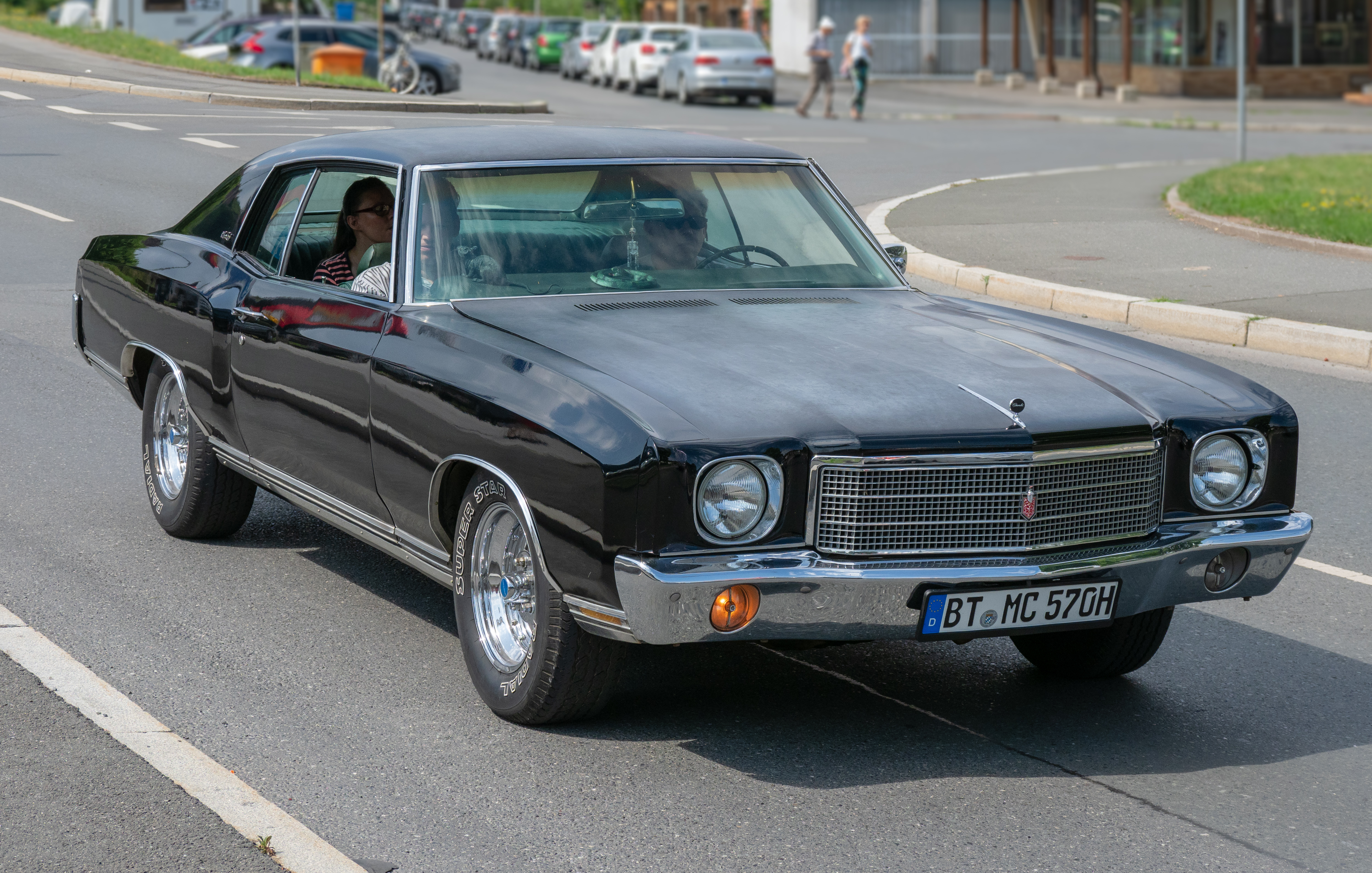 Chevrolet Monte Carlo 1970 at the Oldtimer Treffen in Kulmbach 2018